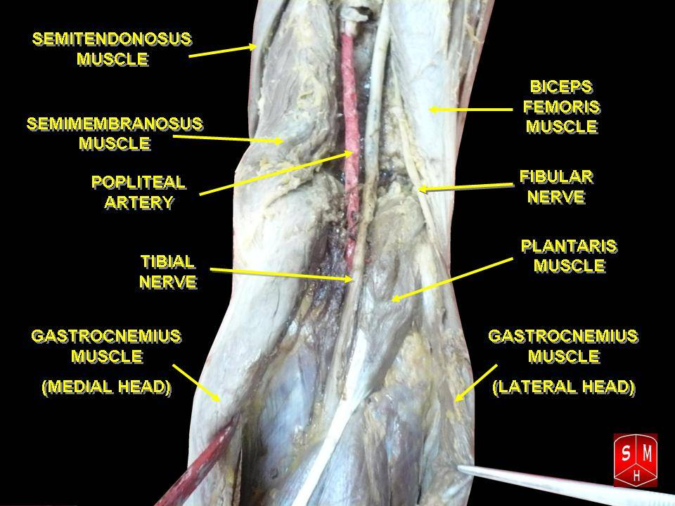 Lower limb anatomy